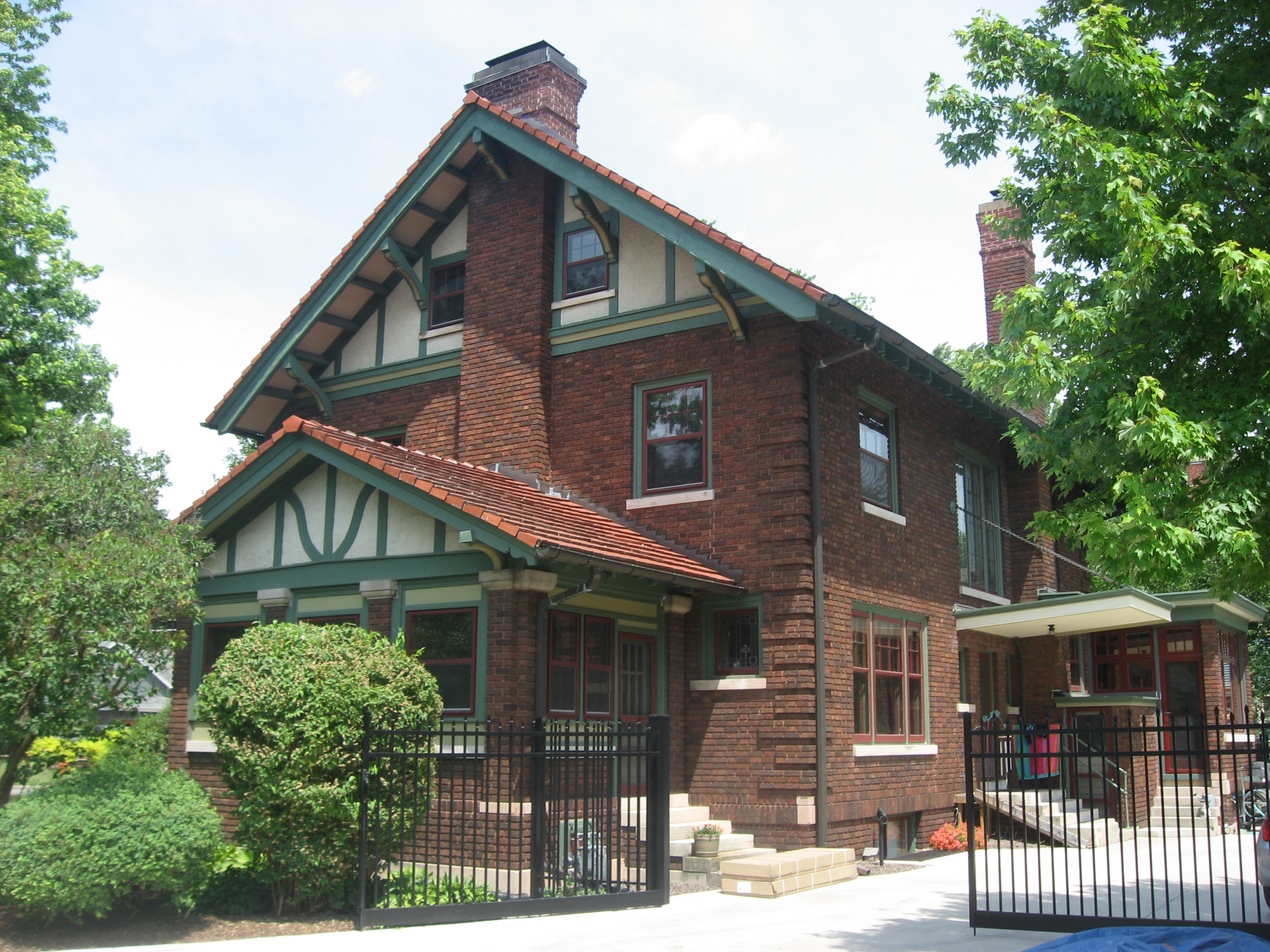 Southern side and rear of the Albert Maack House, located at 498 S. Court Street in Crown Point, Indiana, United States. Built in 1913, it is listed on the National Register of Historic Places.